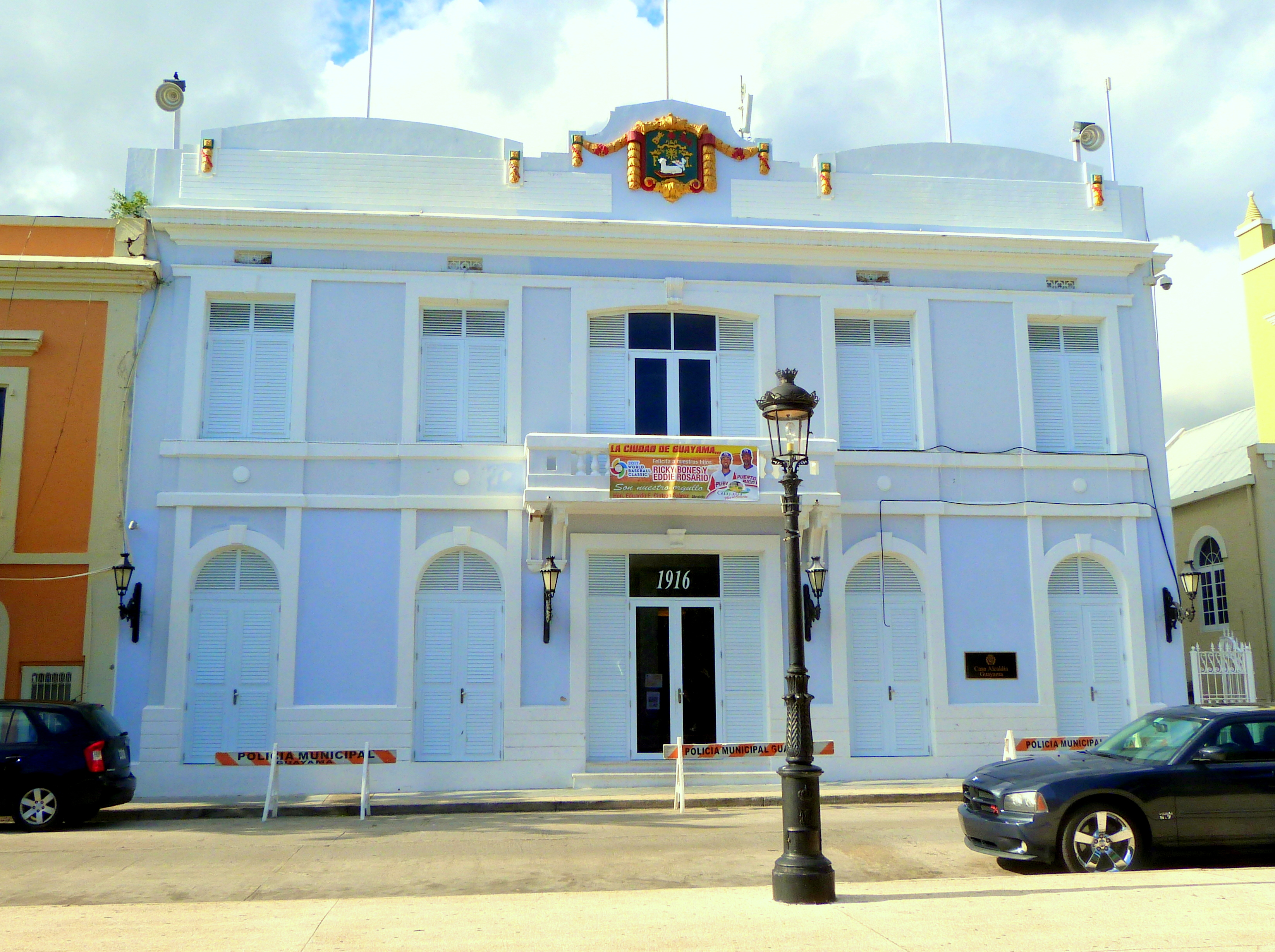 The town hall in Guayama, Puerto Rico, facing the town plaza.